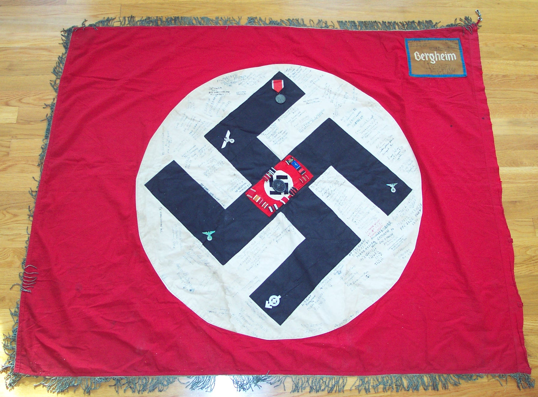 Flag signed by the men of the 3rd Battalion, 395th Regiment (United States) after seizing Bergheim, Germany from the Nazis, March 1, 1945.